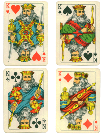 Four kings in a popular style of Austrian Piatnik (modified Rhine suite, popular in Poland since at least 1920s).